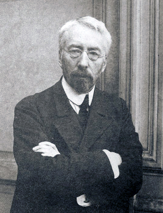 Russian revolutionary and writer Vladimir Burtsev.